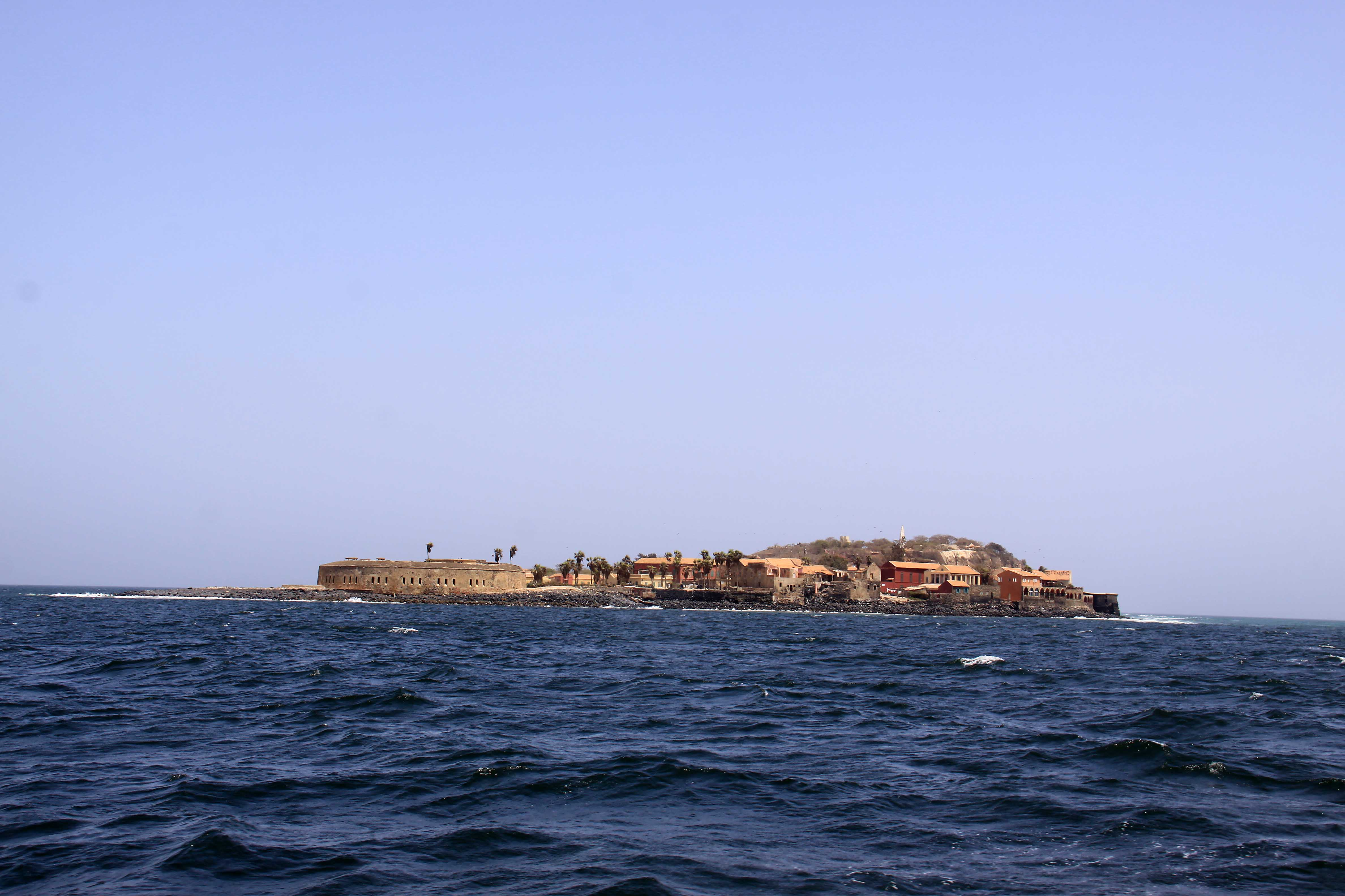 see filename. This file contributes to Share Your Knowledge.